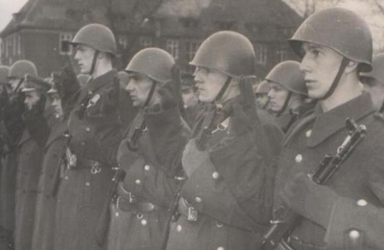 Stargard, 1960r. Przysięga wojskowa w koszarach 9pz.